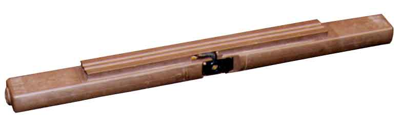 A picture of a British Barmine.